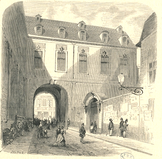 Wood engraving of the Arcade Colbert, published in L'Illustration, journal universel, just before the beginning of demolition.